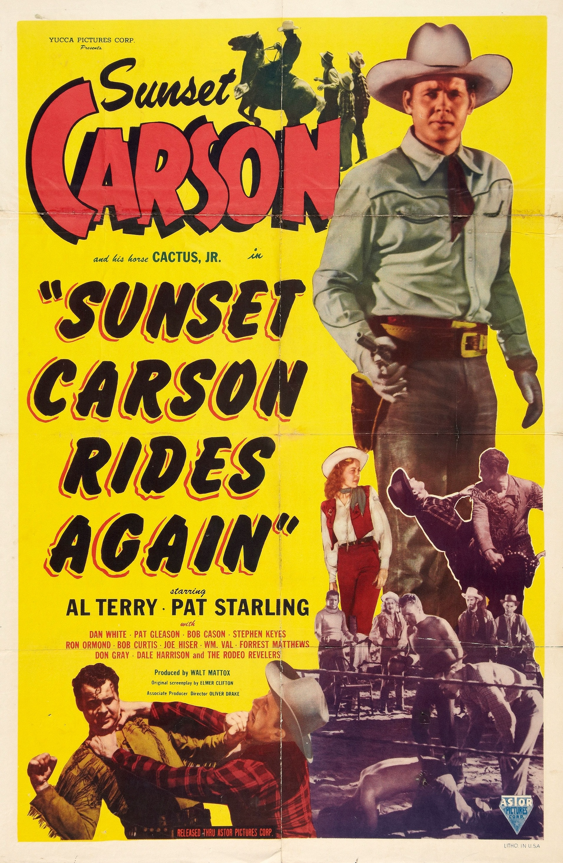 Sunset Carson Rides Again is a 1948 American film directed by Oliver Drake. This is an original poster and as can be seen in this high resolution image, there were no copyright notices on the poster, thus making it in the public domain.